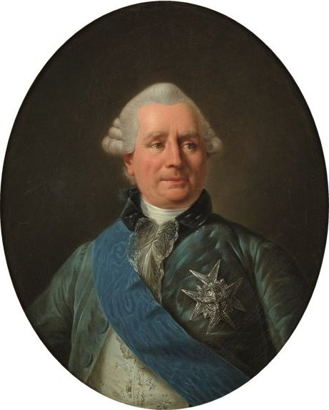 The Count de Vergennes